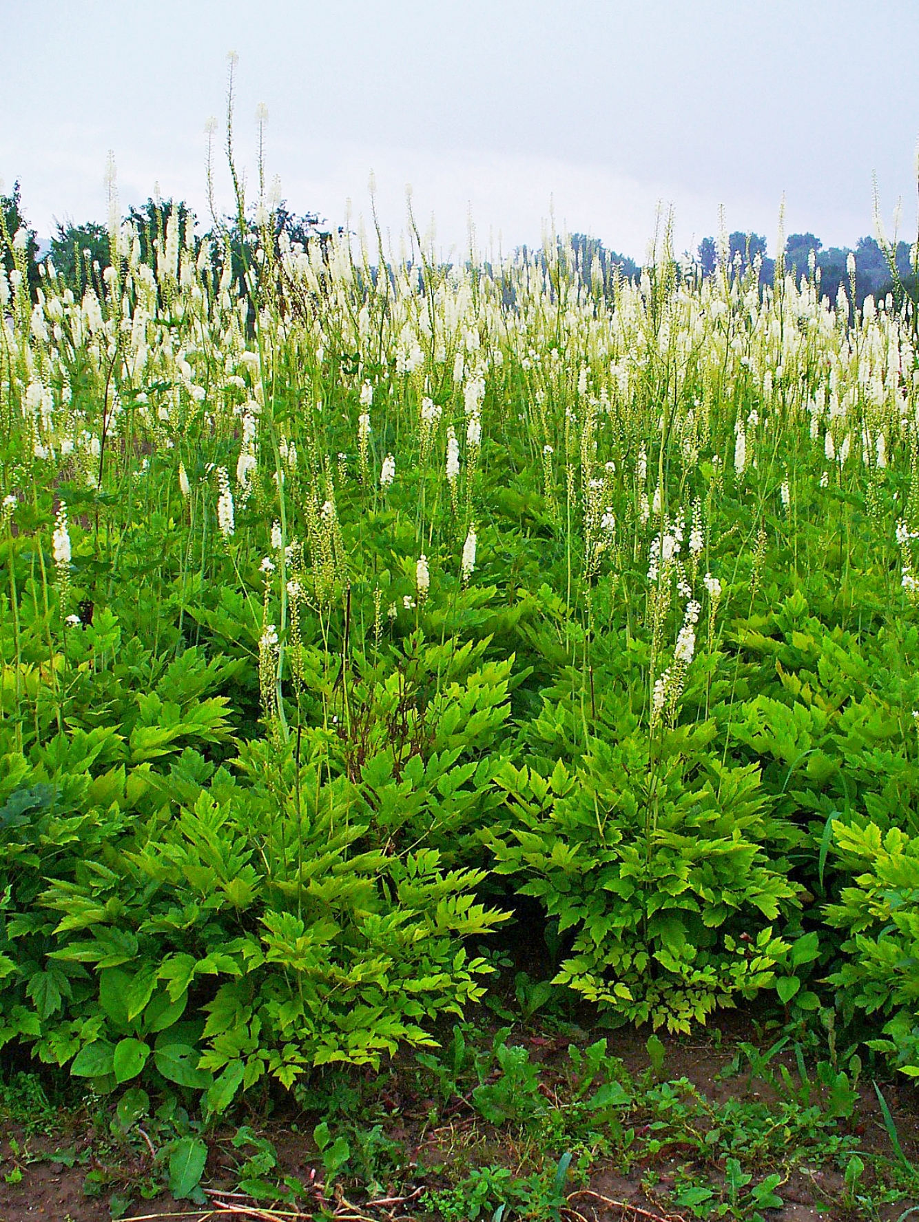 Actaea racemosa, Ranunculaceae, Black Cohosh, Black Bugbane, Black Snakeroot, Fairy Candle, habitus. Stutensee, Germany